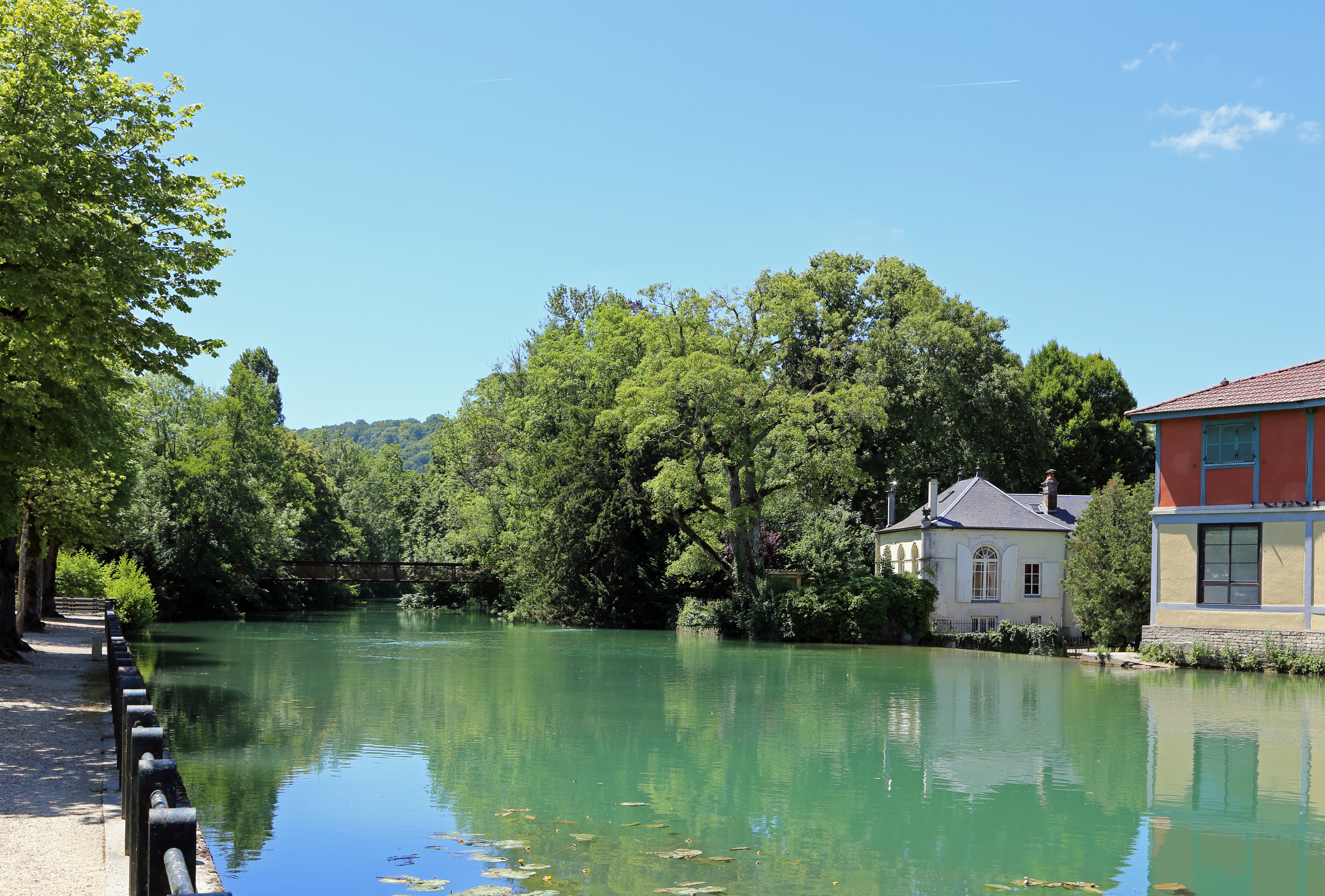 The Aube River in Bar-sur-Aube (Aube department, France)